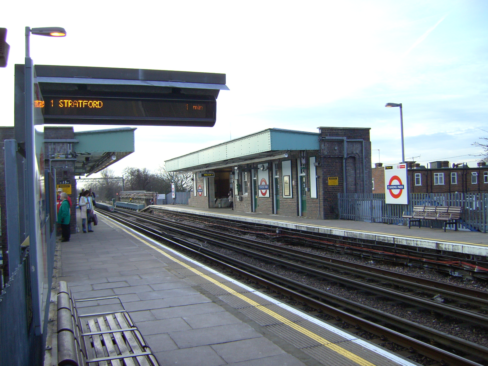 Canons Park tube station, view towards the south.